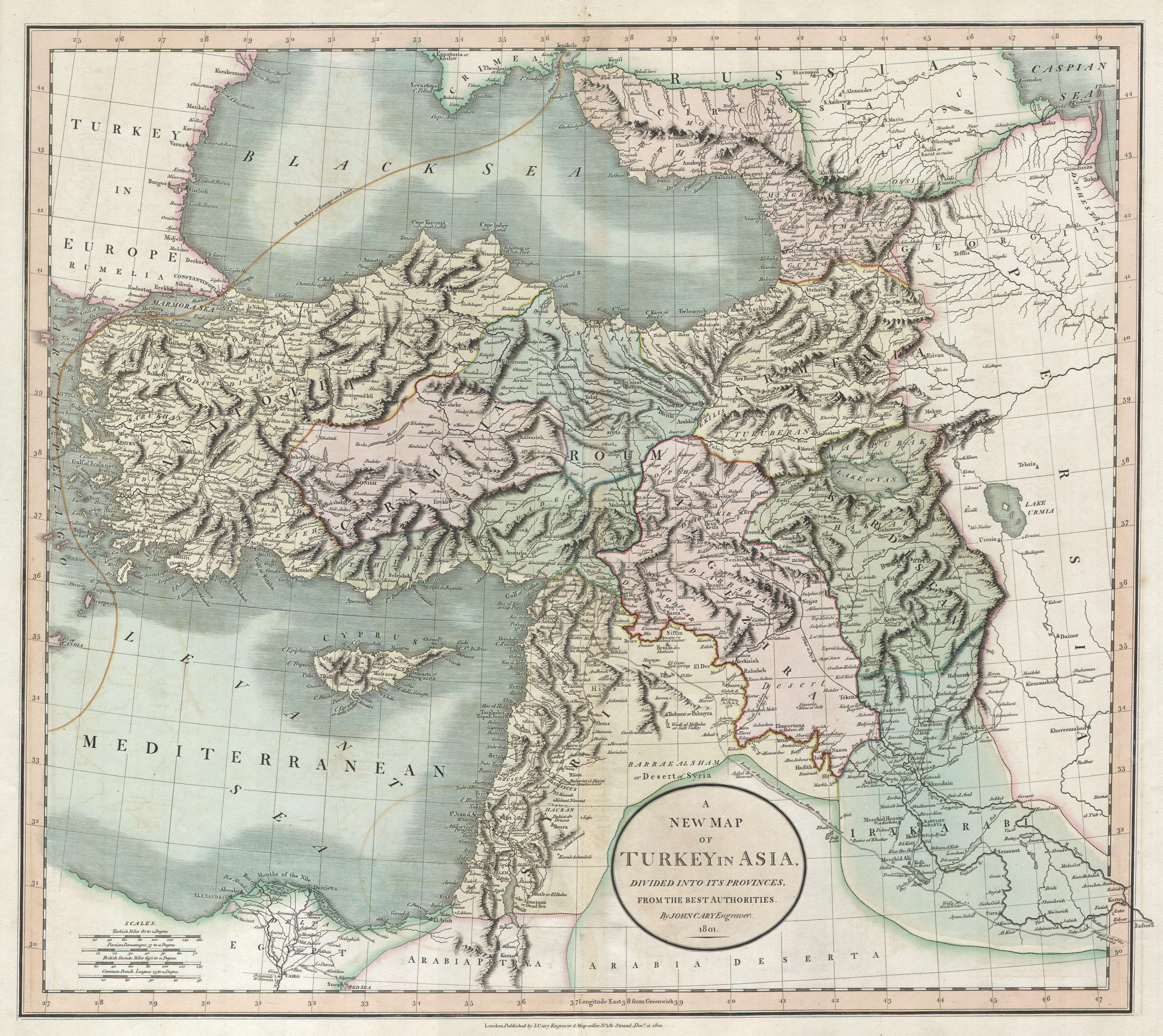 This is a stunning 1801 map of Turkey in Asia by English Cartographer John Cary. Depicts the vast regions in Asia controlled by the Ottoman Empire at the close of the 18th century. Includes the modern day nations of Turkey, Iraq, Syria, Lebanon, Palestine / Israel and Jordan. Wonderful detail down to the level of individual salt mines, dams, river crossing, and caravan routes. Dated 1801.